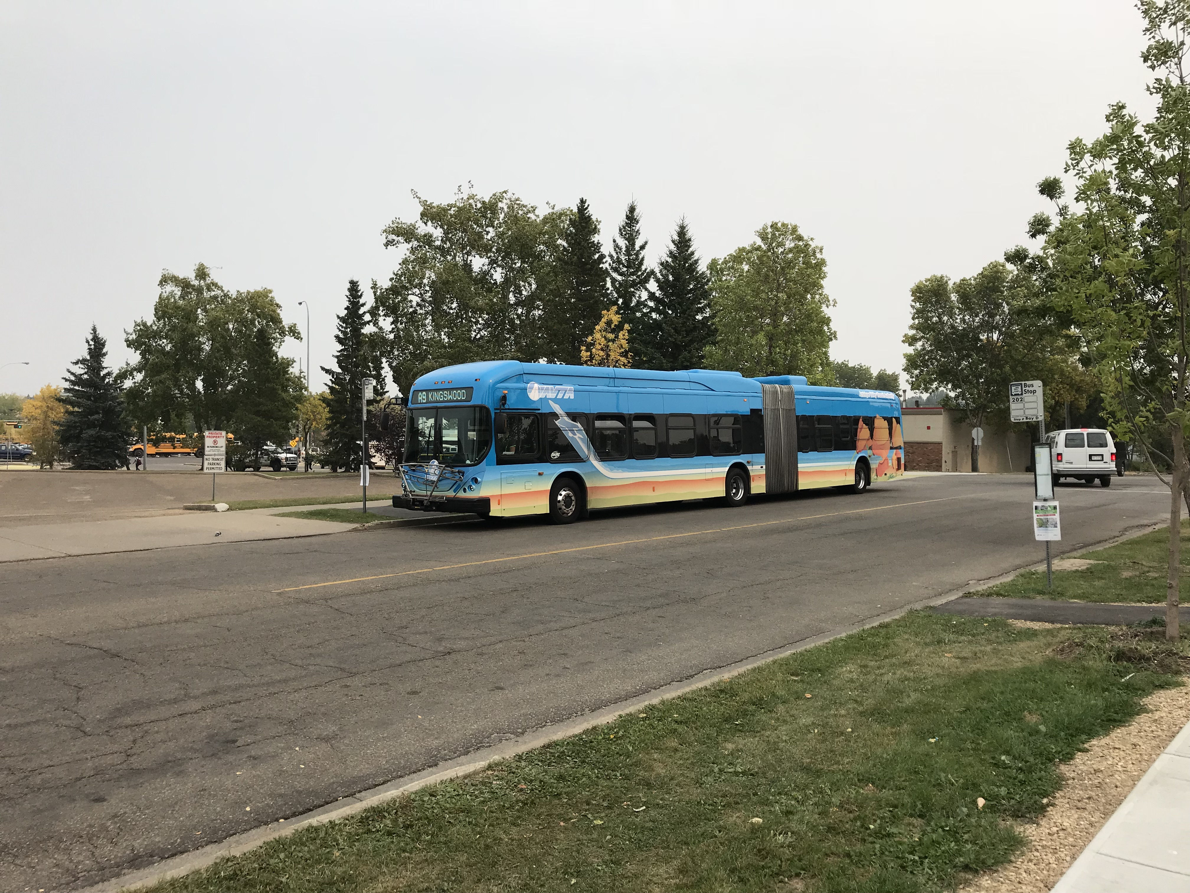 The bus was used in a trial to determine if the bus would be a improvement